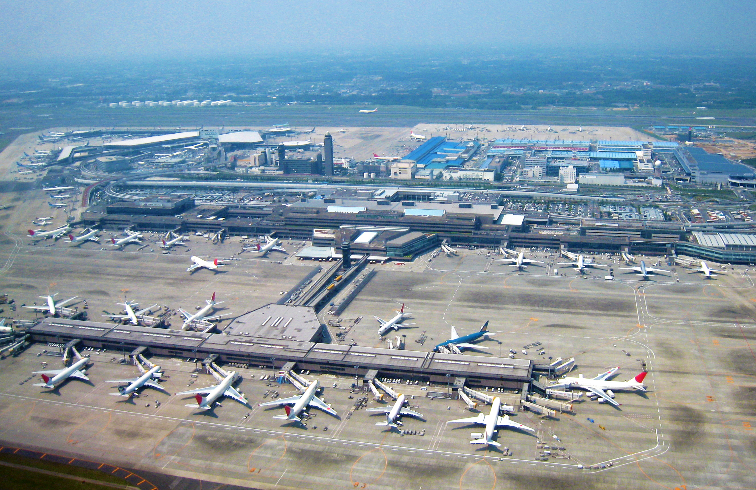 Narita International Air Port(成田空港 航空写真）, Chiba(Japan) from Airplane